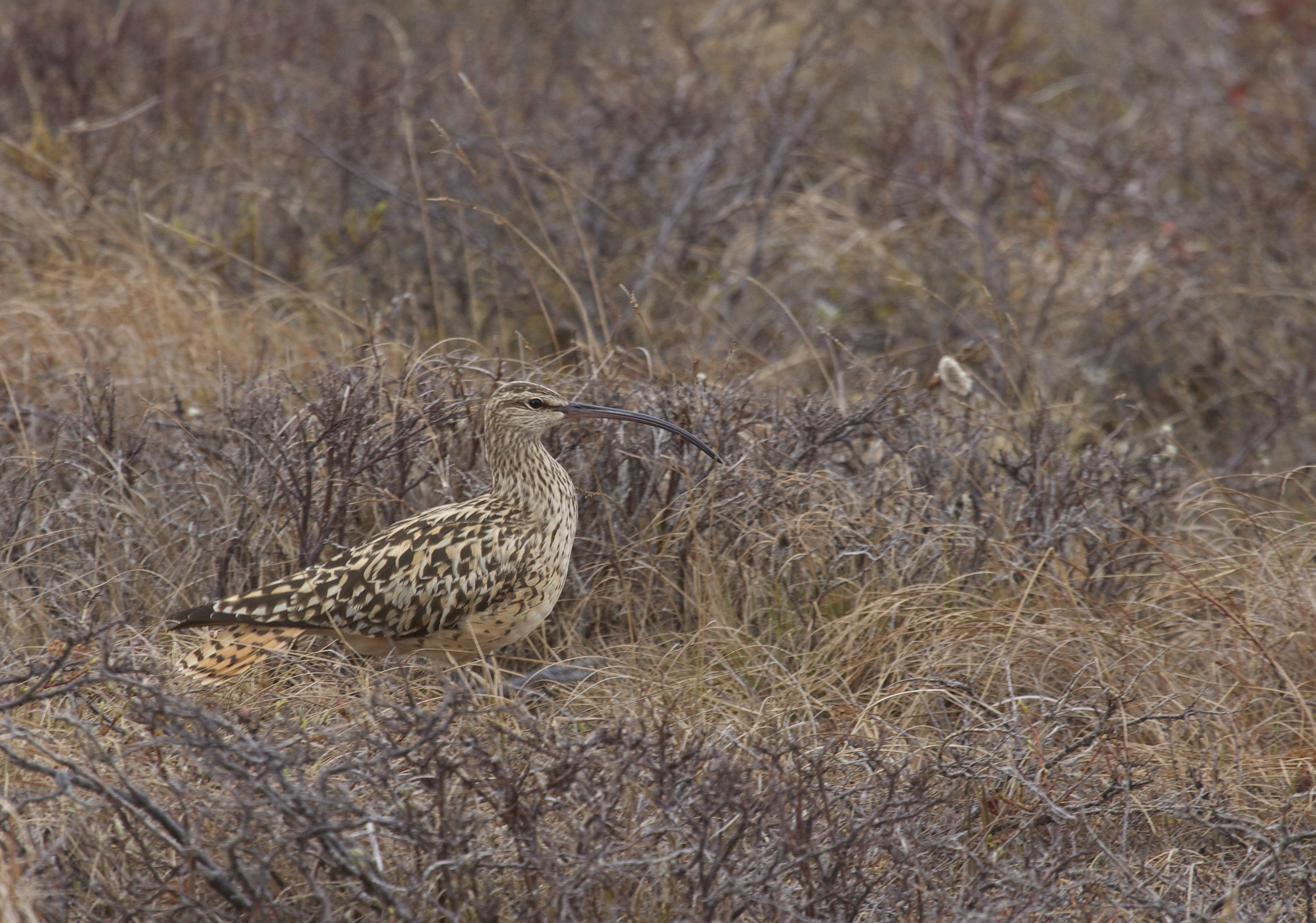 Nesting in only the Yukon Delta area and the central Seward Peninsula, this is one of the highly sought after ticks for birders visiting Nome, AK. This was such a cooperative bird...